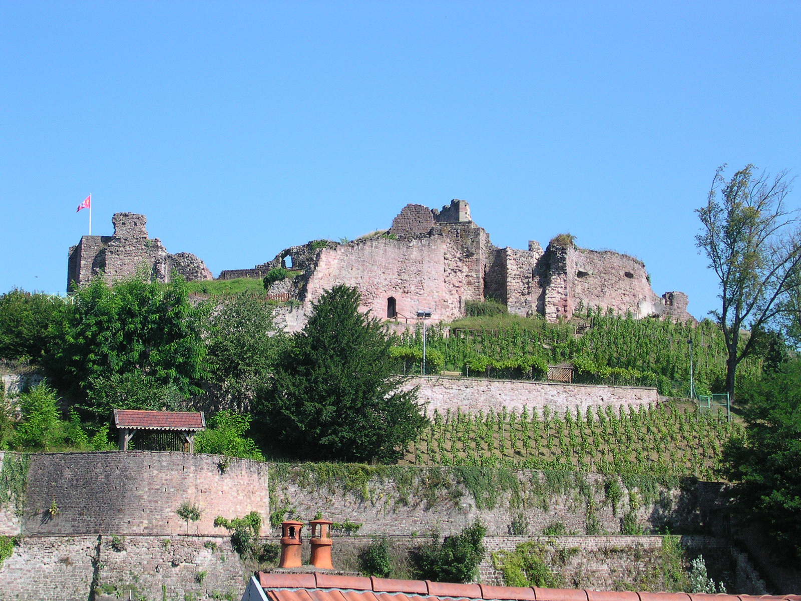 Castle of Epinal